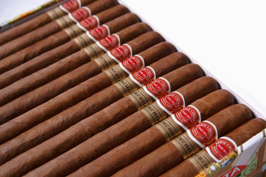 Romeo y Julieta Churchills